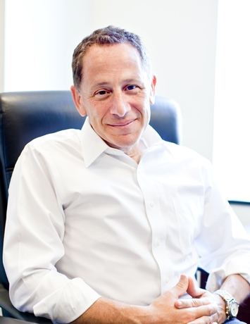 This is a headshot photo (jpeg) of David Rothkopf (for use on this page